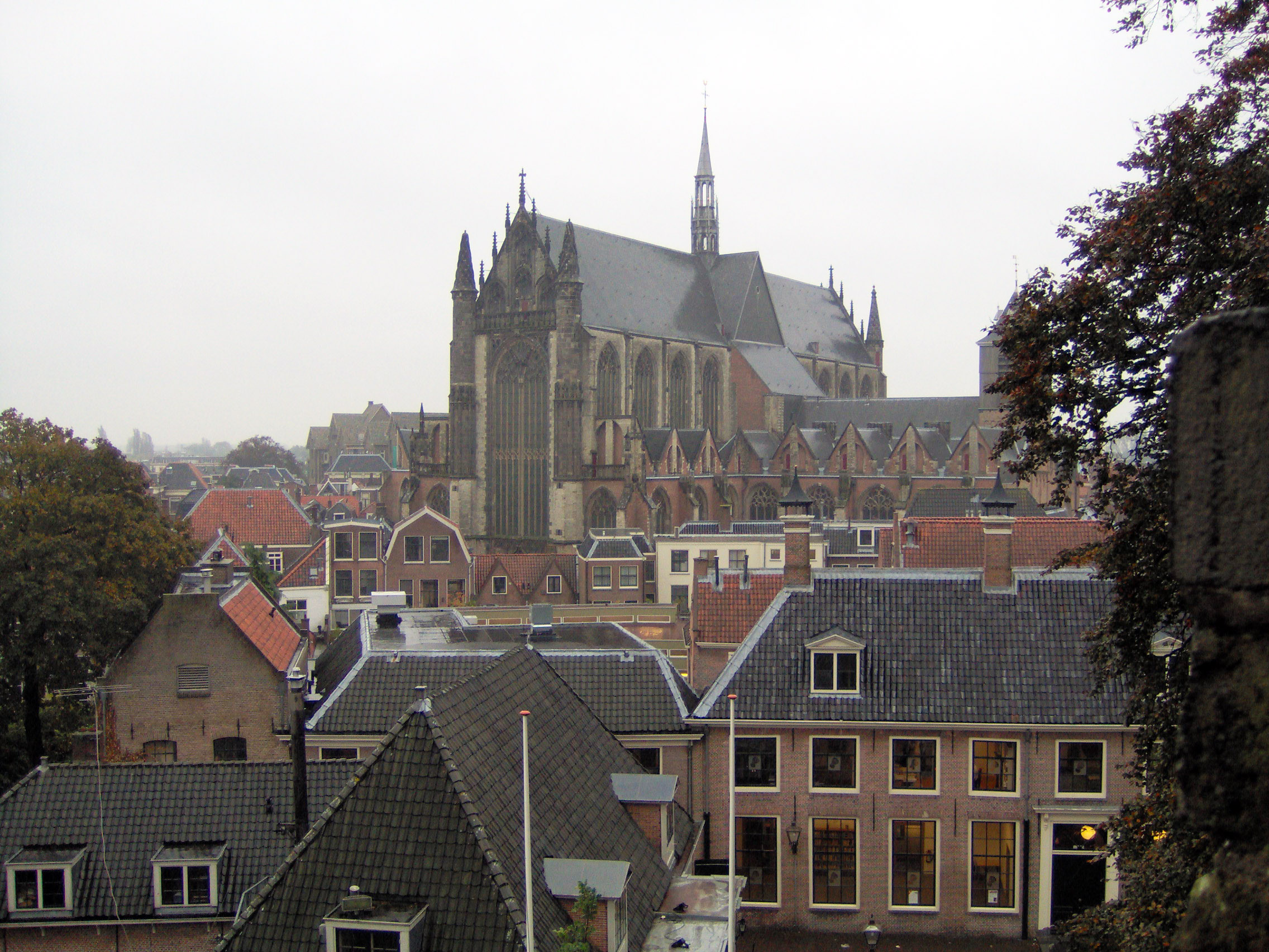 Hooglandse kerk (Church of the High Lands), Leiden, The Netherlands, as seen from the Burcht (Burrow), when facing in the south-eastern direction.